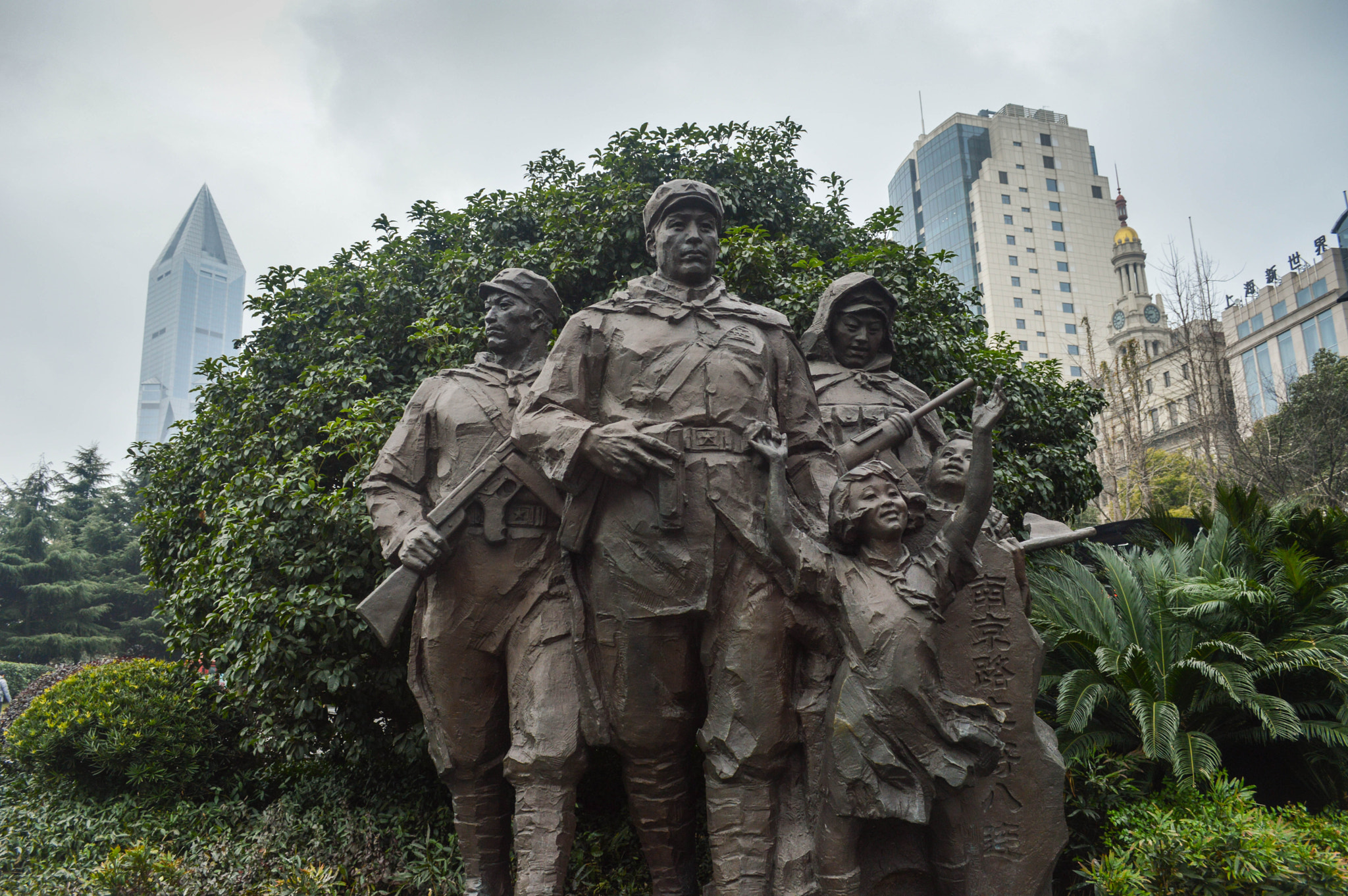 500px provided description: Marching Forward [#sky ,#city ,#travel ,#old ,#tourism ,#architecture ,#culture ,#monument ,#statue ,#stone ,#sculpture ,#outdoors]